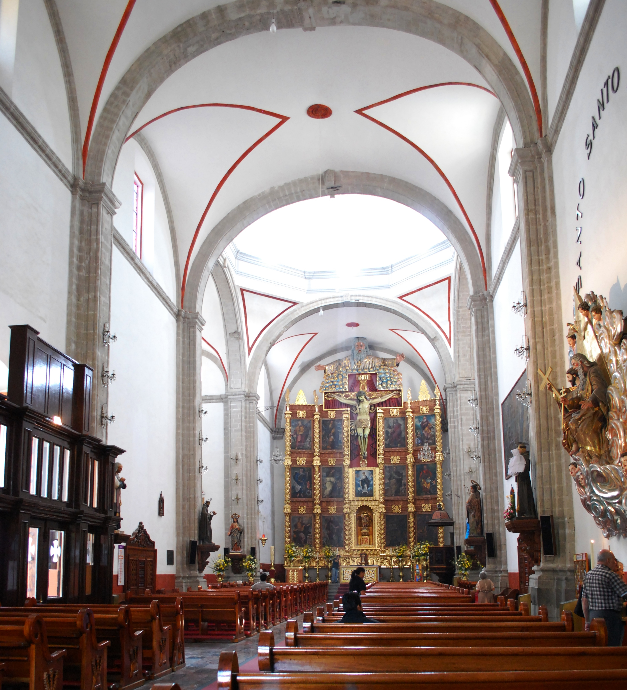 Nave of the Parish of Tacuba, Mexico City